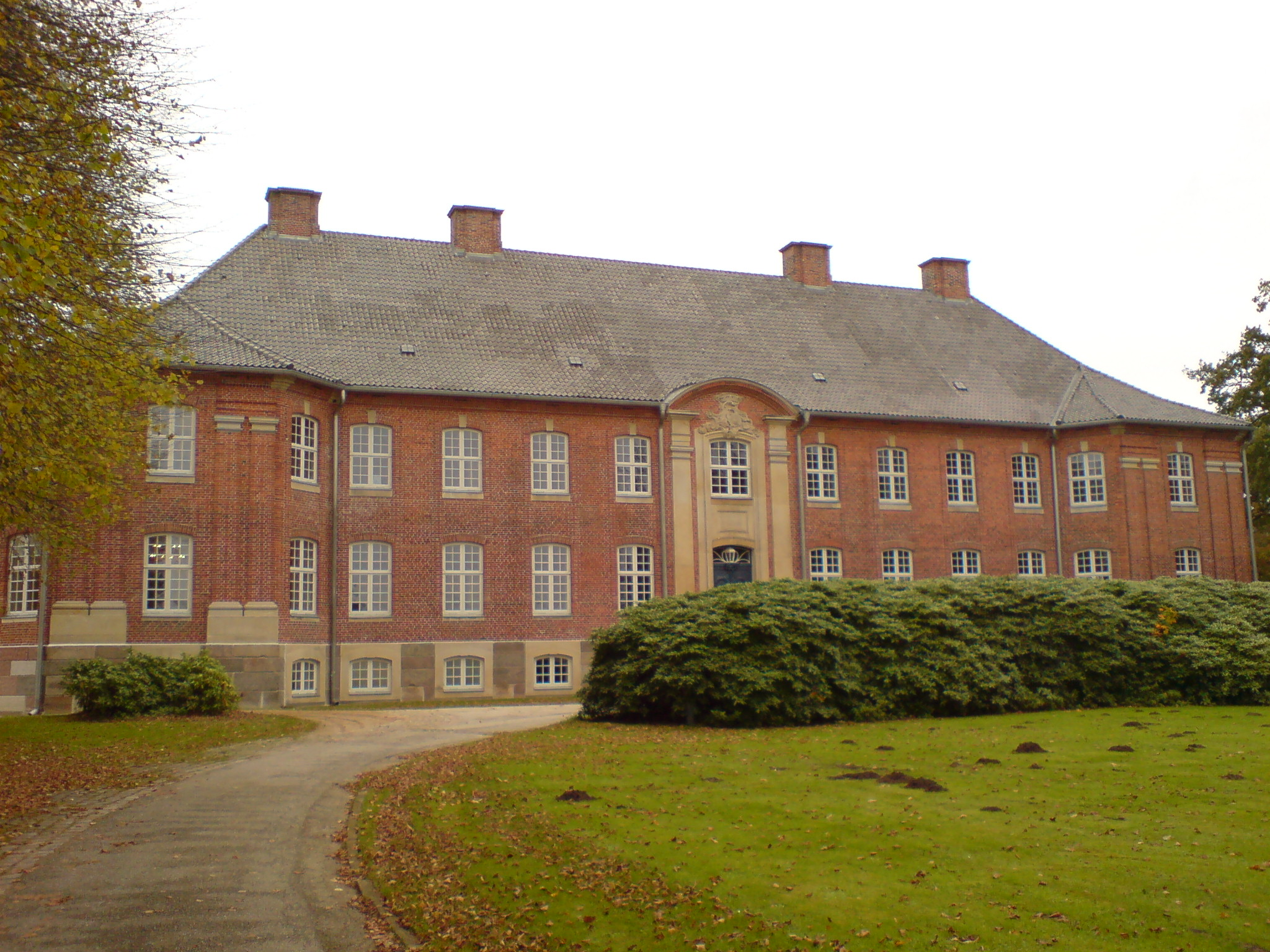 Borstel Manor, the courtyard